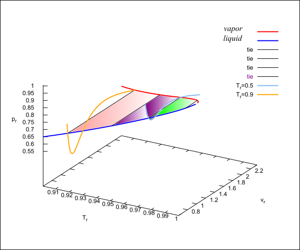 pseudo 3D p-v-T diagram for van der Waals fluid showing some tie lines and isotherms, colors optional